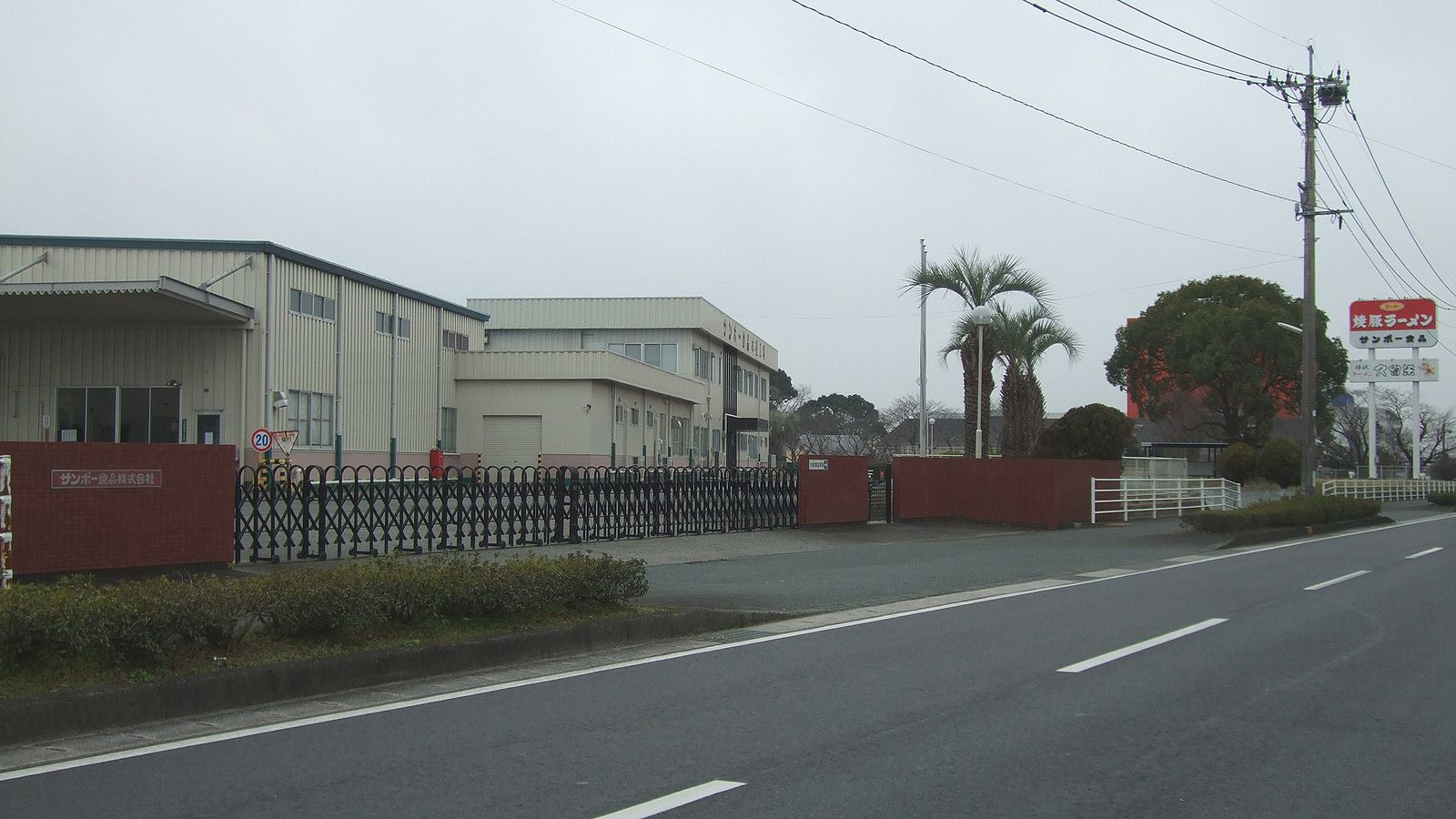 Sanpofoods headquaters and factory, Kiyama Town, Saga, Japan.